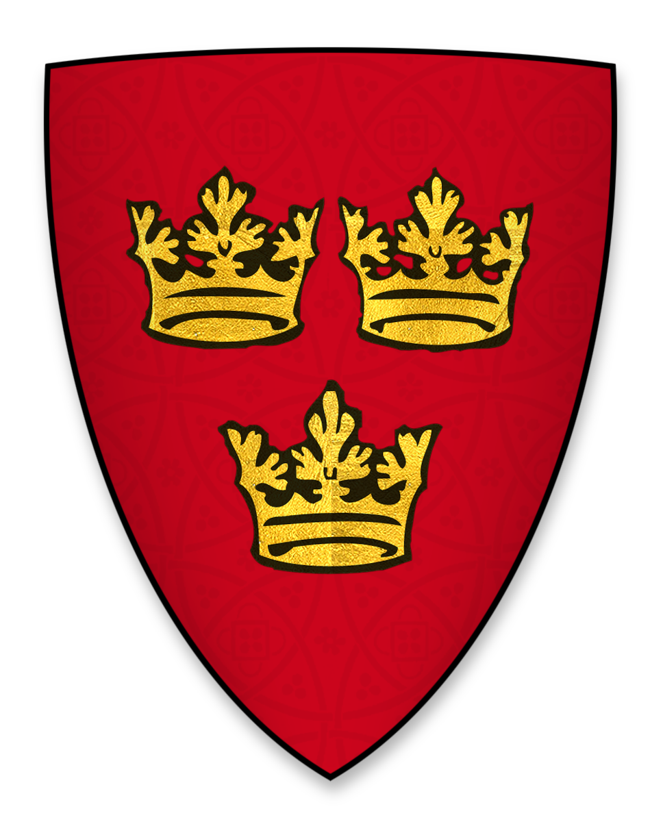 Arms displayed by Geoffrey de Burgo, Bishop of Ely, at the signing of Magna Charta